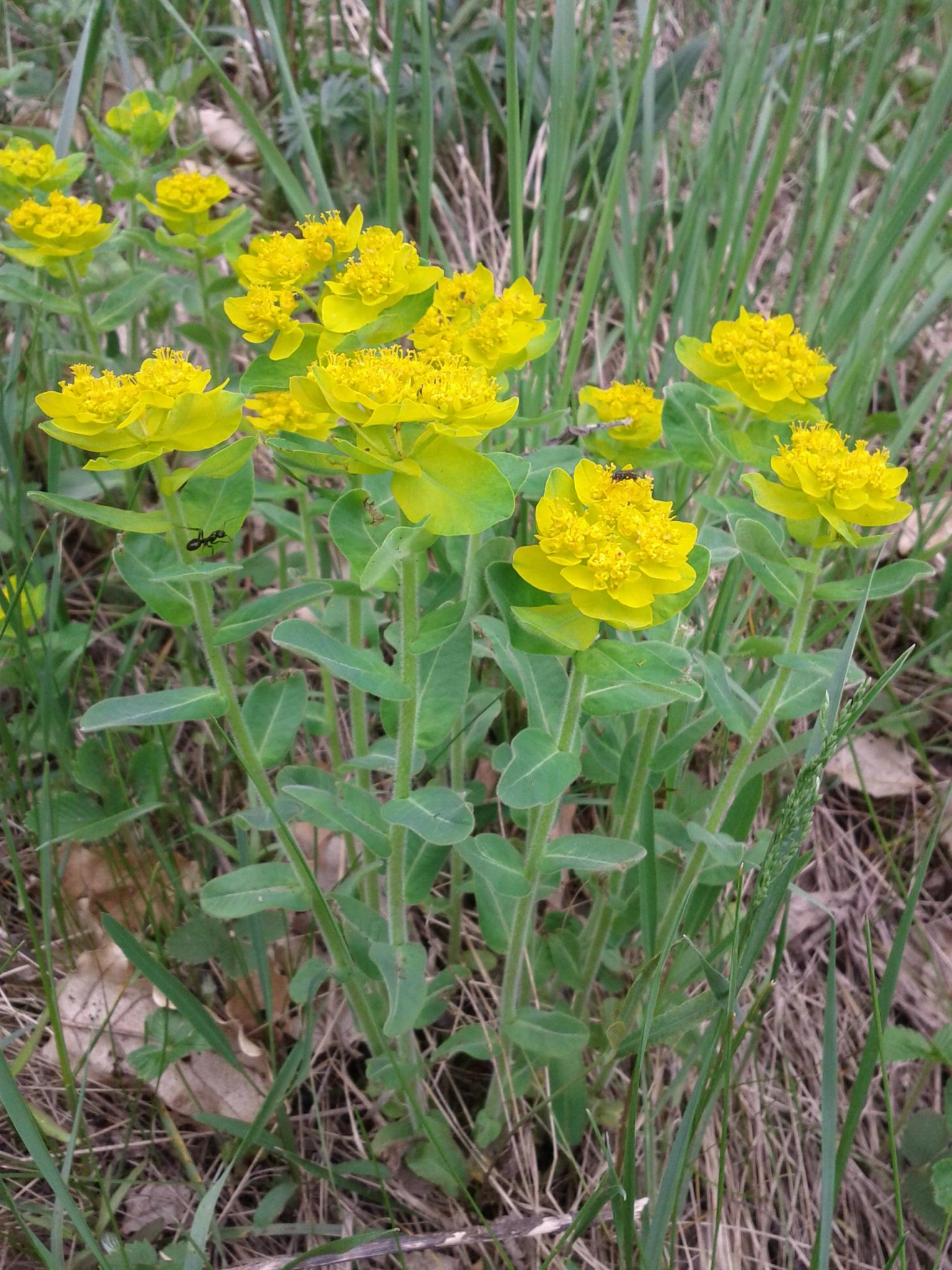 Taxon: Euphorbia polychroma (sensu Fischer et al. EfÖLS 2008) Location: Goldberg near Schützen am Gebirge, district Eisenstadt-Umgebung, Burgenland, Austria Habitat: dry grassland